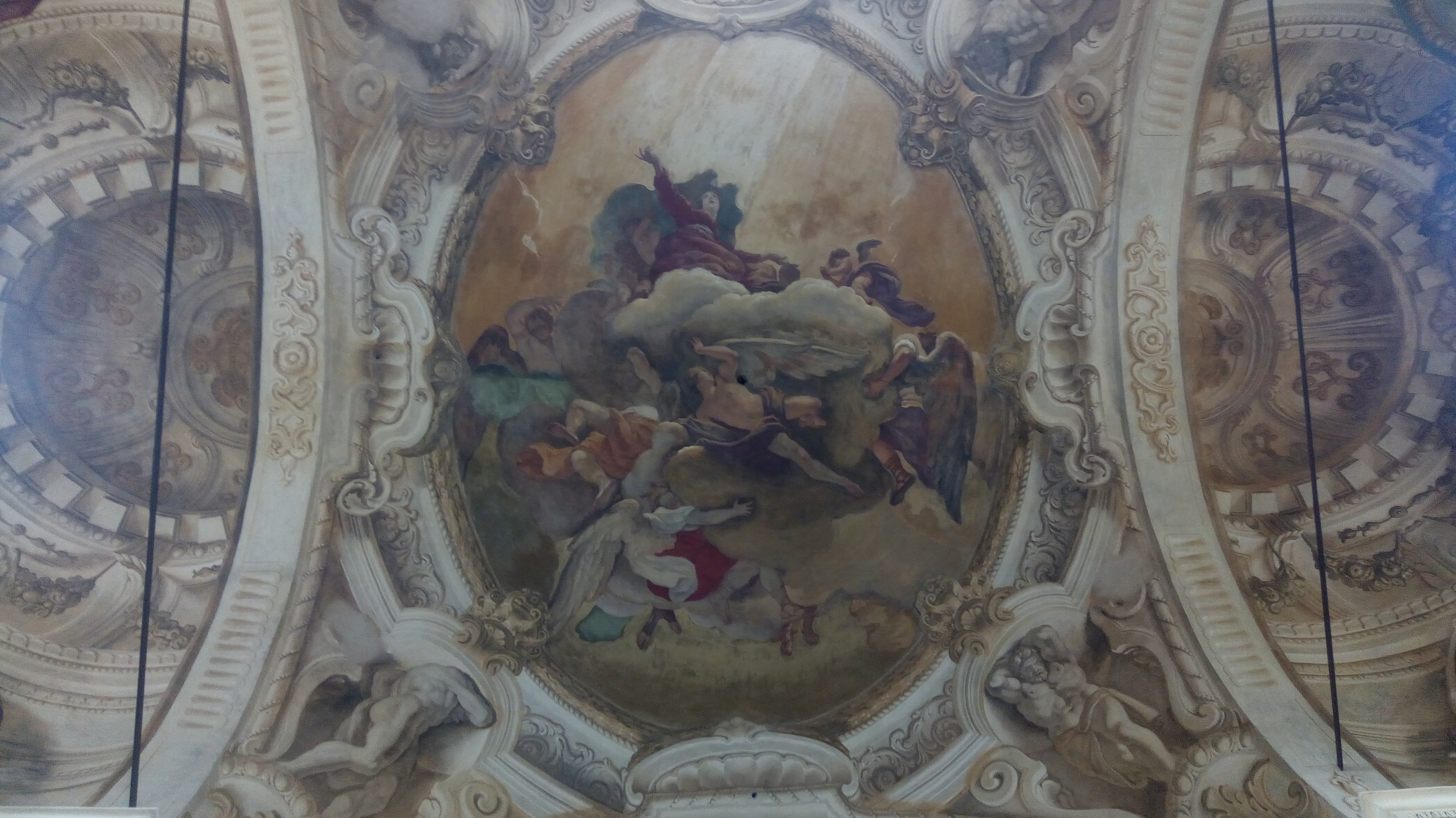 Serraglio Church